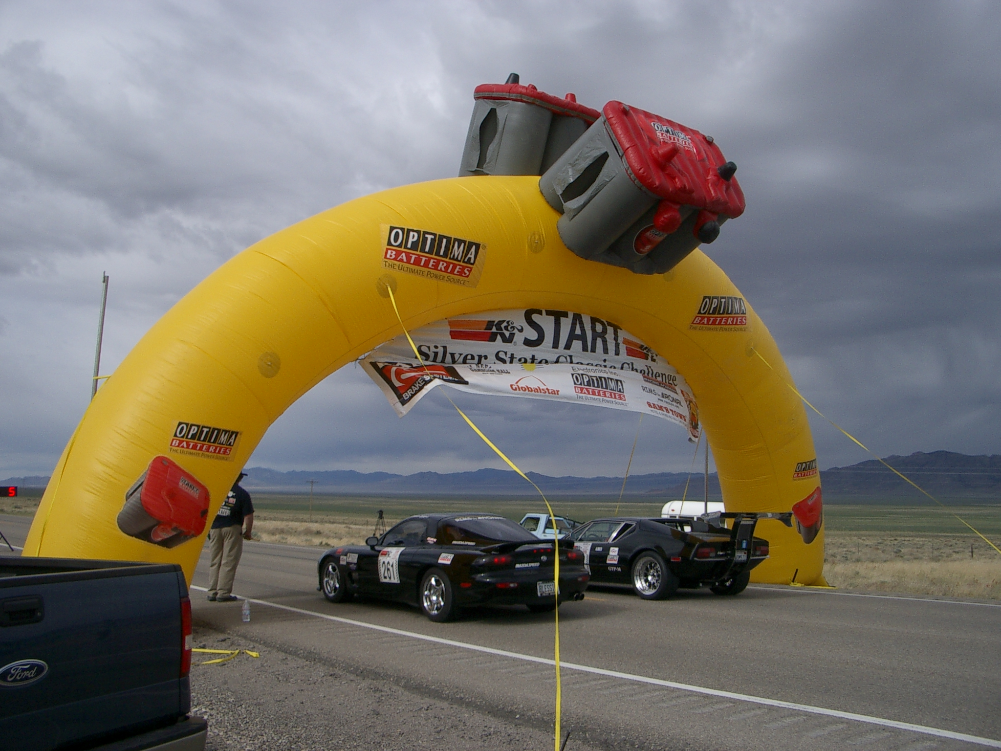 Taken by me, User:Simon Gibbons, at the May 2006 run of the Nevada Open Road Challenge